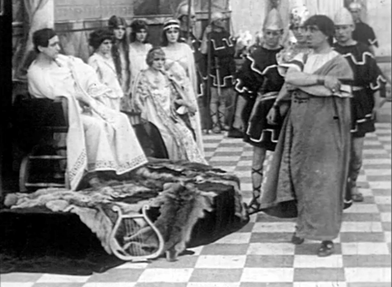 Barrabas (Arthur Maude) stands before Pontius Pilate in the 1913 film "The Shadow of Nazareth"